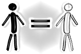 "Equal rights for everybody!" - This artwork can be used to describe social movements for equal human rights, especially for black people, women and LGBT. (I drew it with Paint, and edited with Photoshop.)